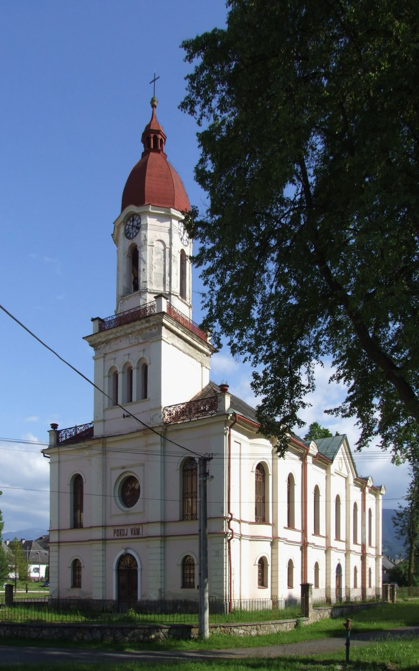 Partizánska Ľupča (Deutschliptsch, Németlipcse) - evangelical church